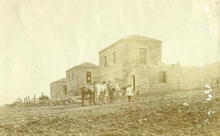 The three houses in Tiberia - front view